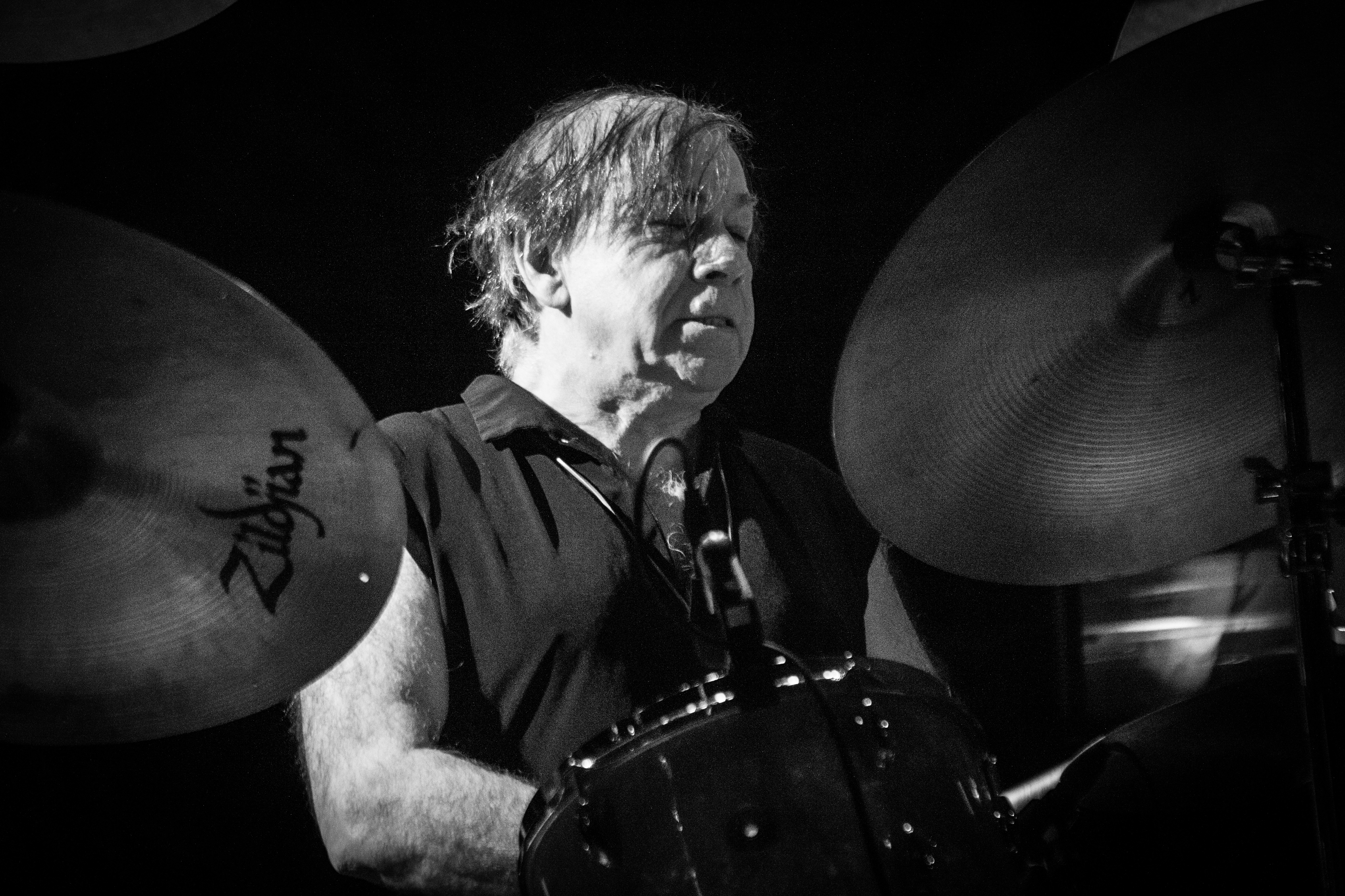 MAGMA live at Roadburn Festival, Tilburg, April 2017